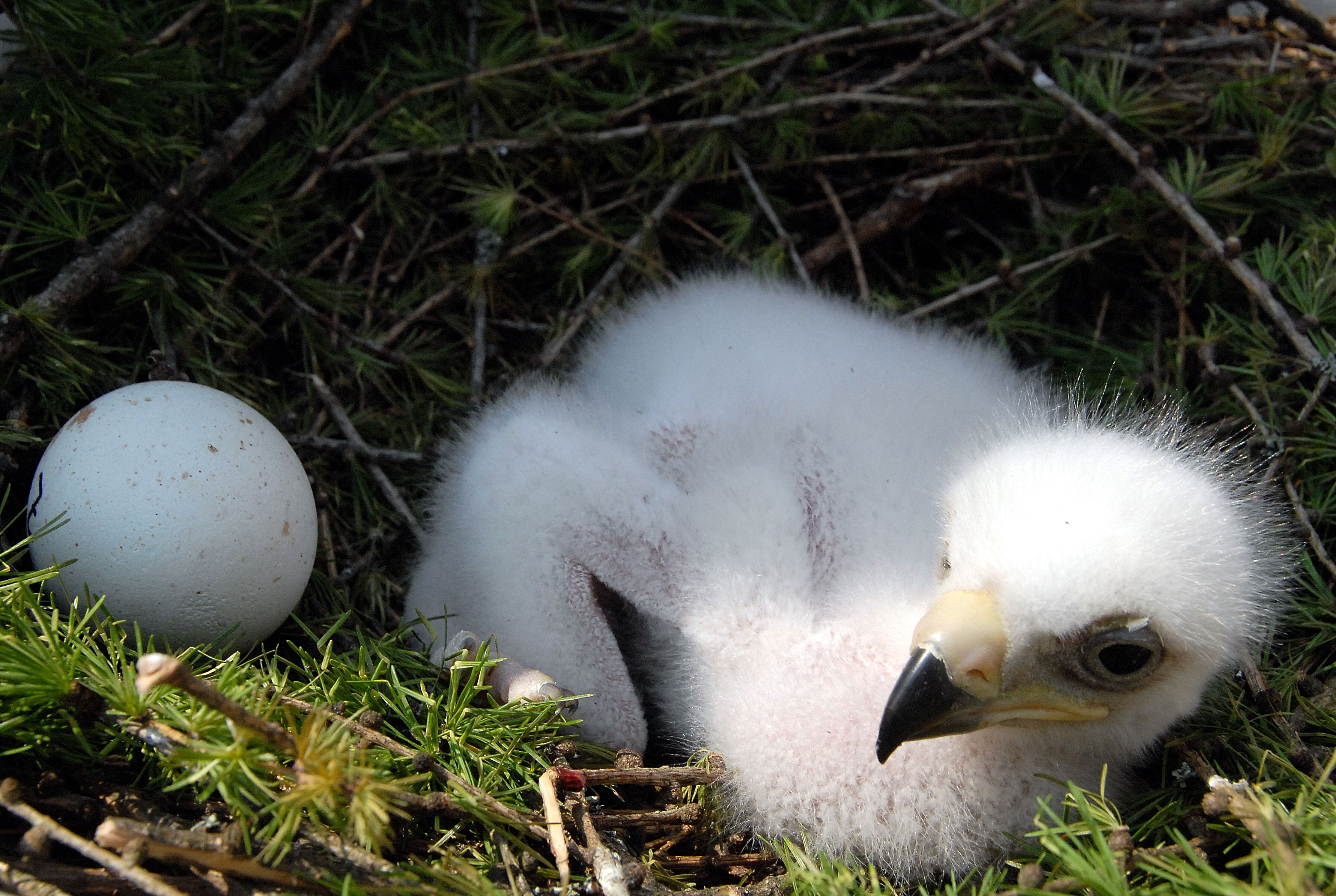 Golden eagle (Aquila chrysaetos) baby at the age of 14 days, Eagle Flight Show at Castle Landskron, Carinthia, Austria.